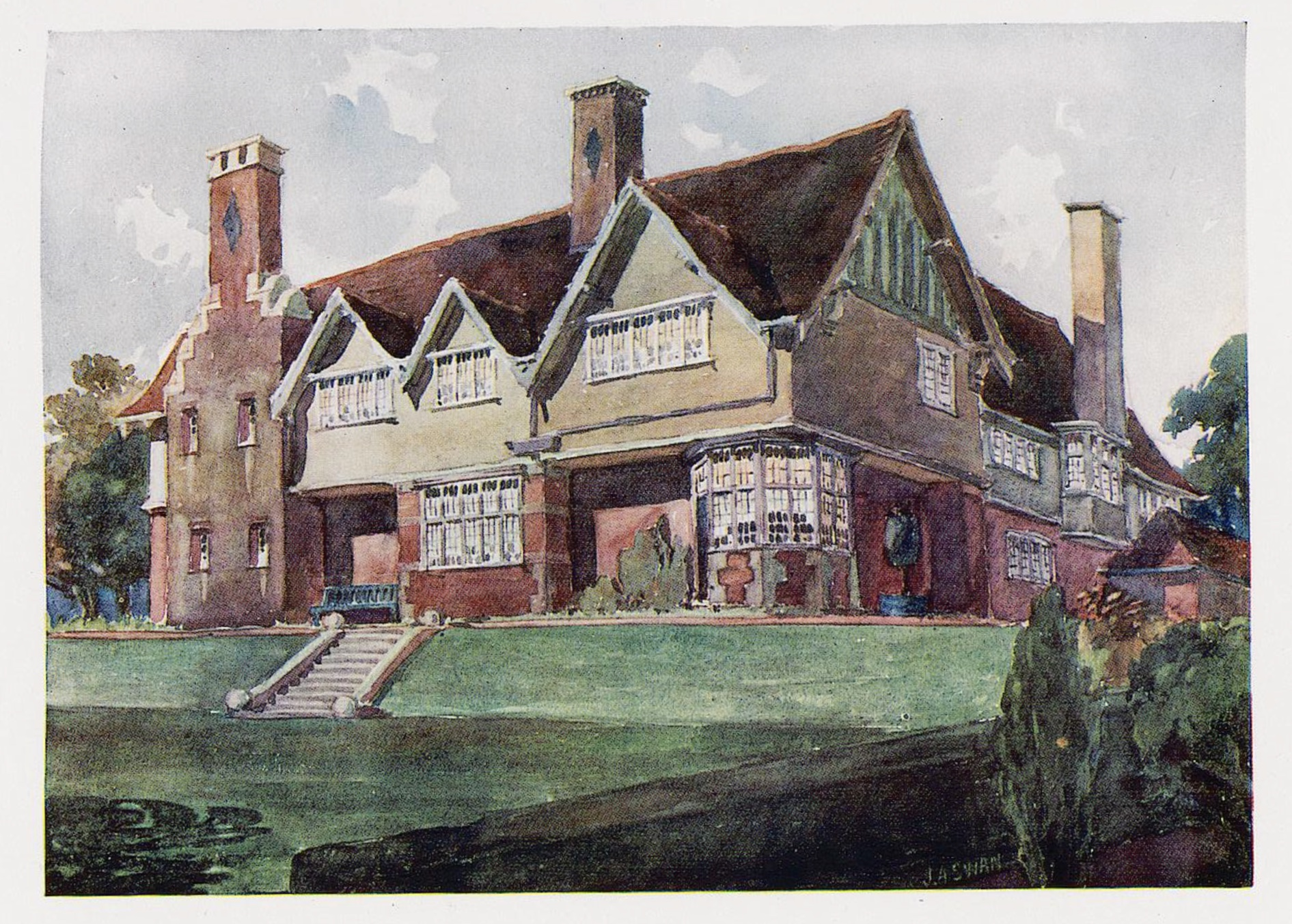 Sunnybrae. A House for John Henry Barlow. From The Studio, International Art Magazine. 1901